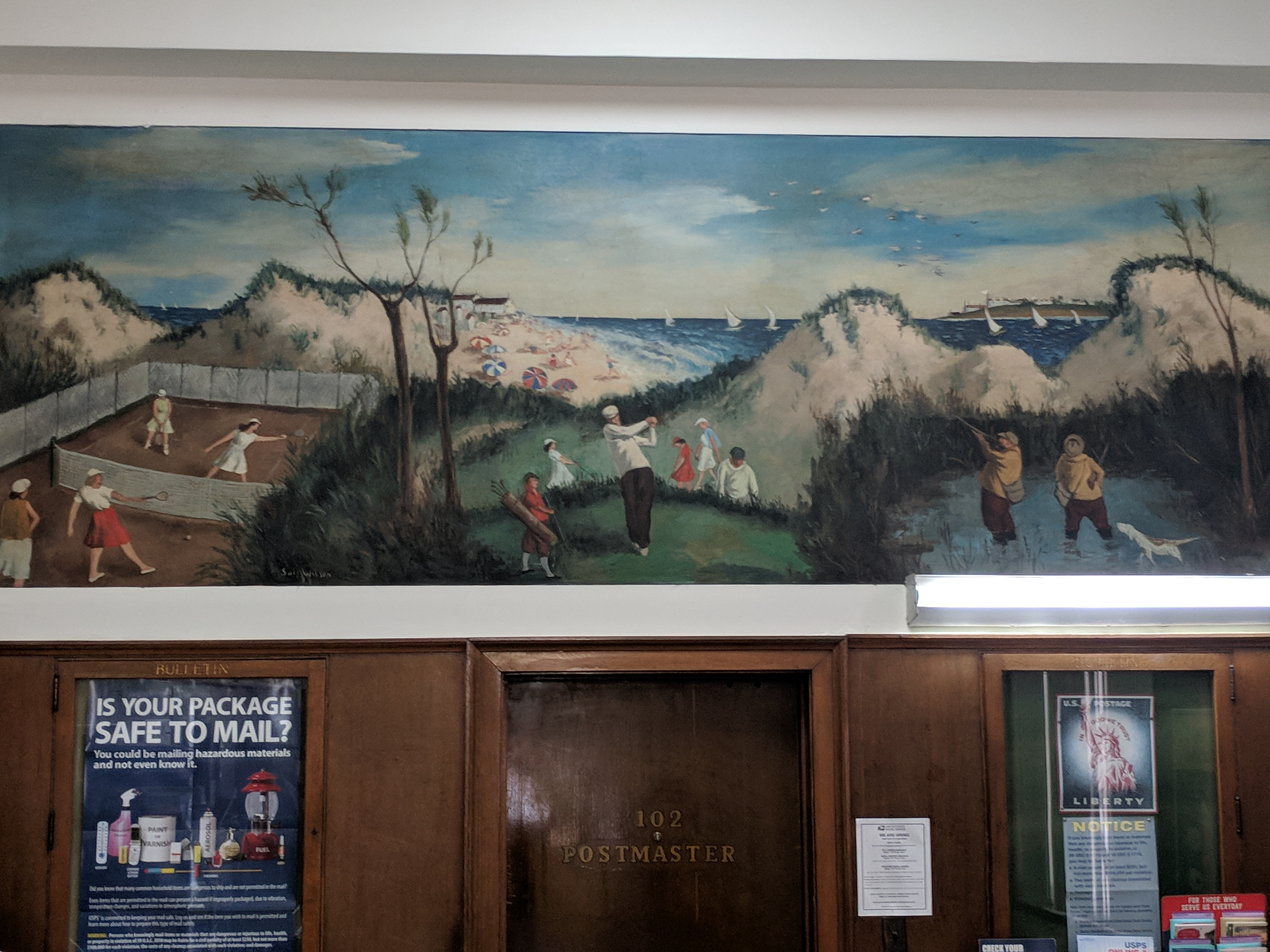 Westhampton beach post office mural over door to postmasters office